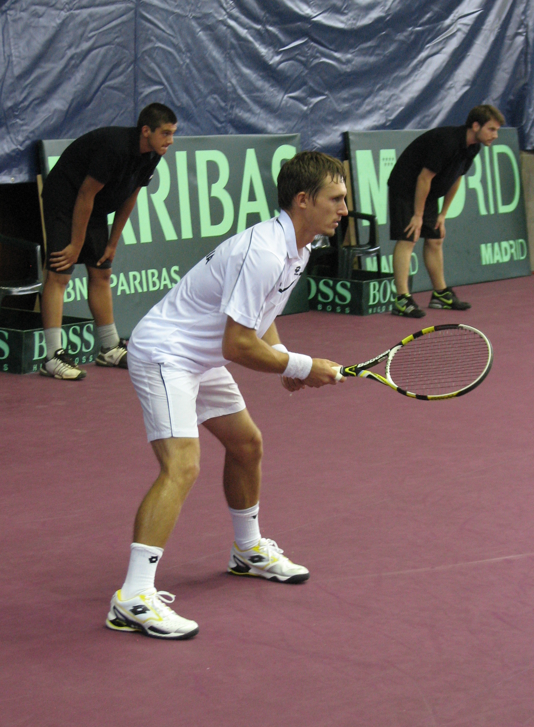 Dimitar Kutrovsky, Davis Cup, Sofia, 2011